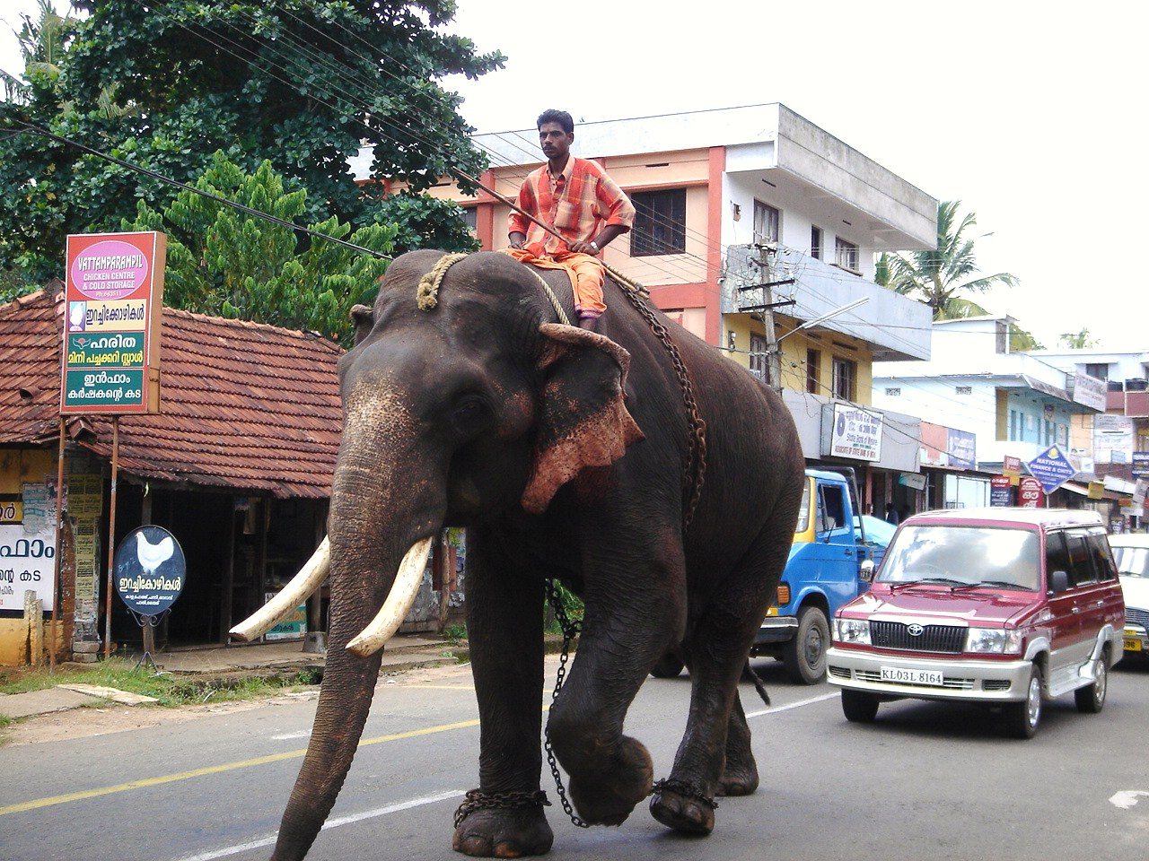 Picture of Kumbanad